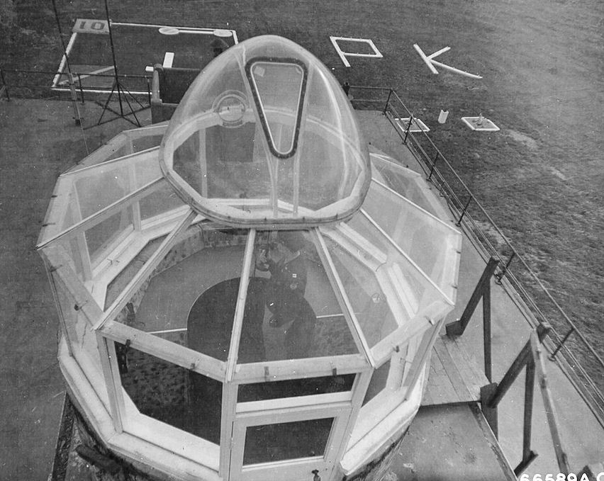 The 351st Bomb Group's control tower at Polebrook, Northamptonshire, England (Station 110) on March 20,1945. Note the use of a B-17 nose plexiglass. Also shows Signals Square